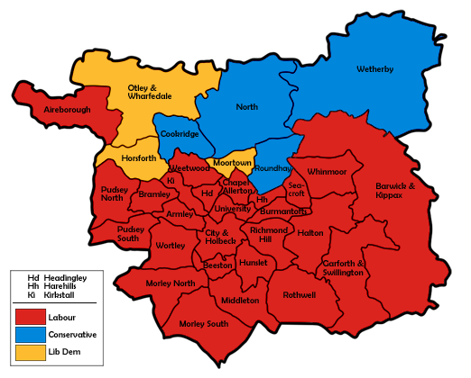 Ward map of Leeds City Council with political colouring for the 1994 election.